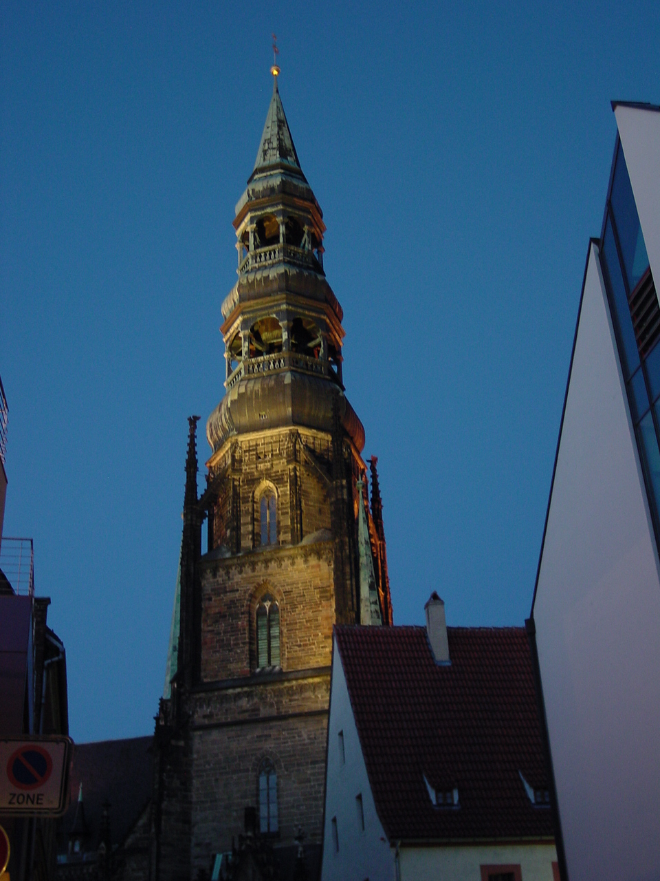 Church tower in Zwickau, at dusk.